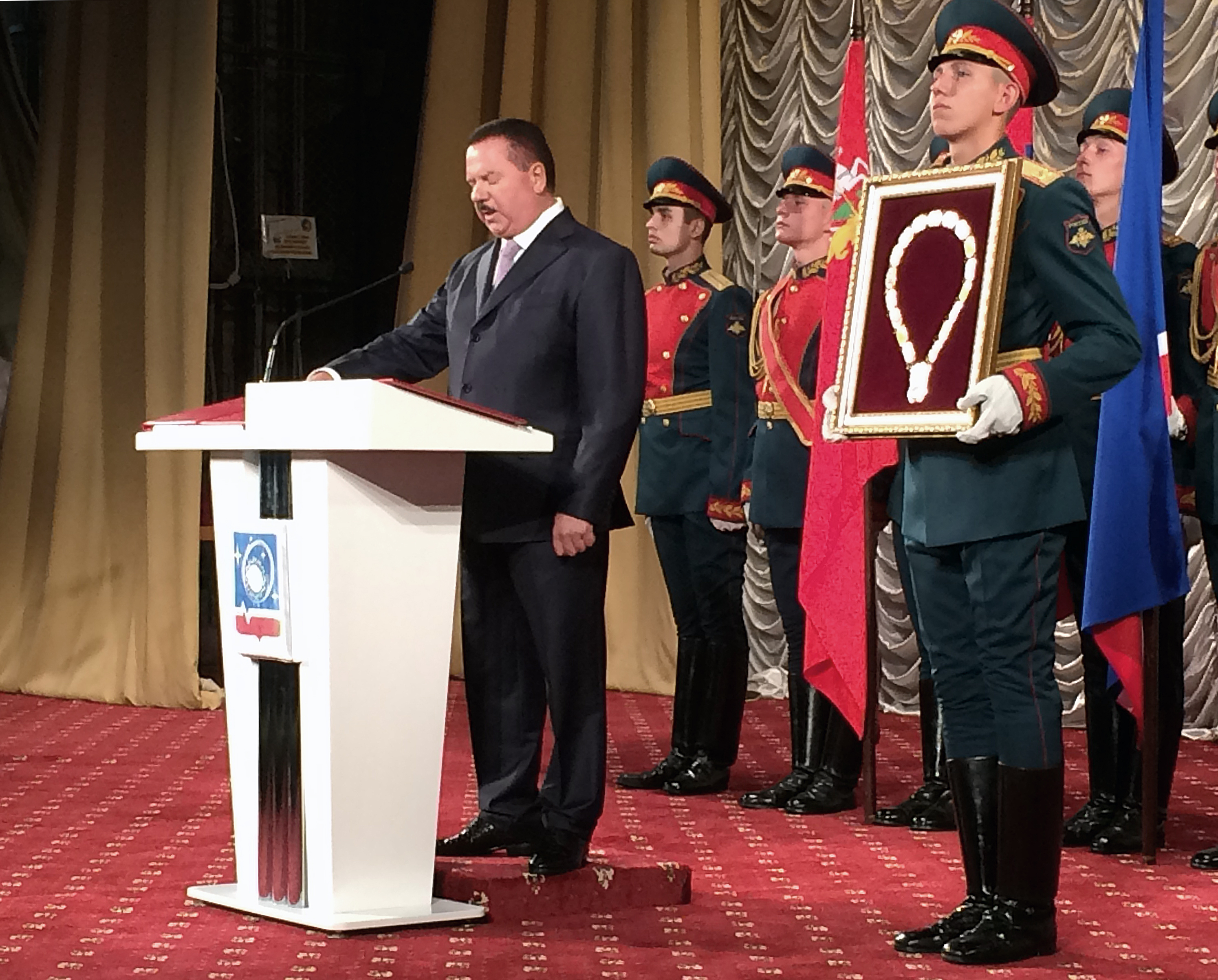 Inauguration of Alexandr Khodirev, the fifth mayor of Korolyov city, Russia